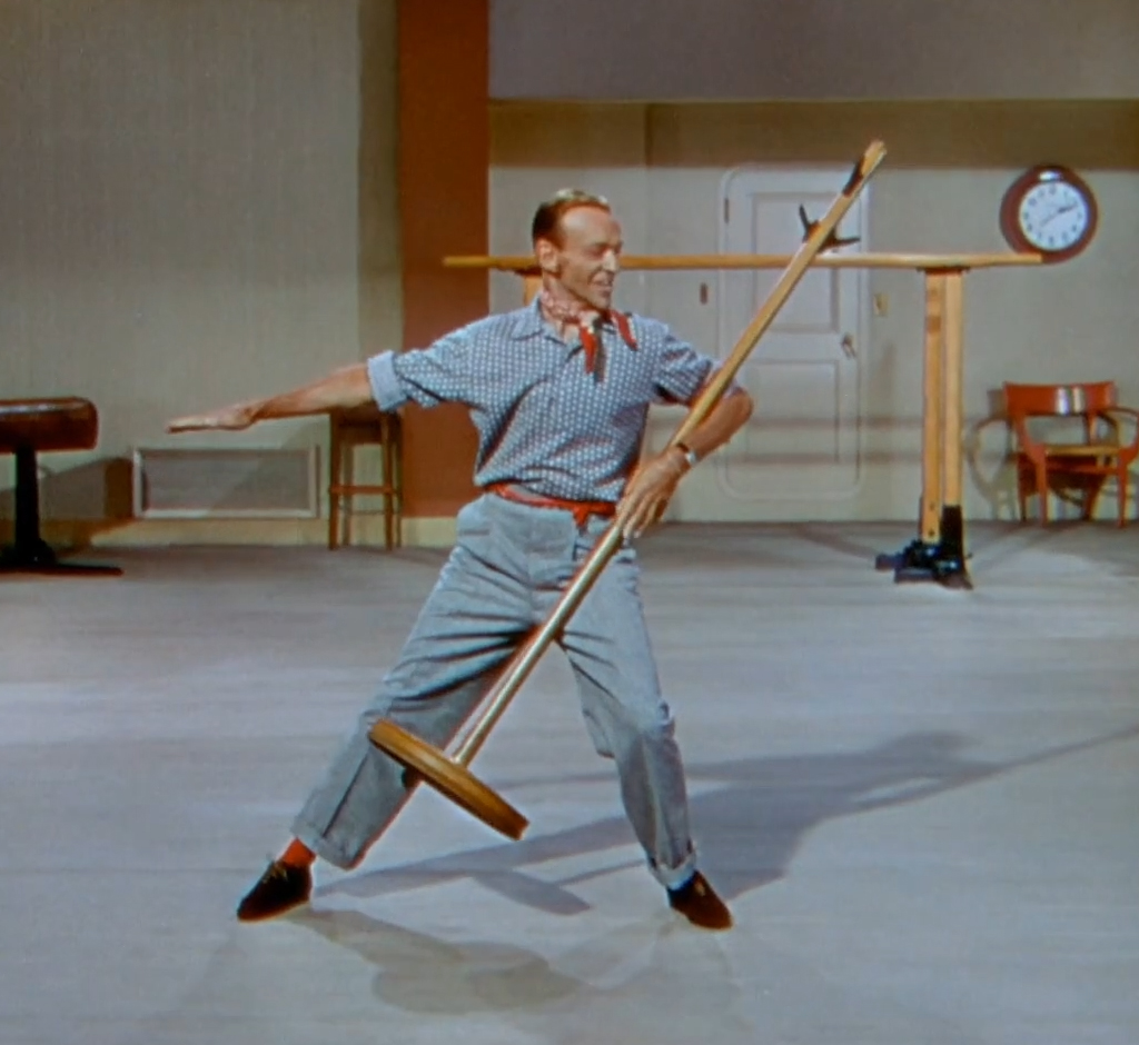 This is a movie screenshot from the film Royal Wedding It illustrates Fred Astaire performing a song and dance routine to "Sunday Jumps" composed by Burton Lane (music) and Alan Jay Lerner (lyrics)